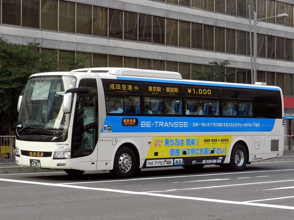 Heiwa Kotsu Mitsubishi Fuso Aero Ace (QRG-MS96VP) for "THE access Narita"(Ginza,Tokyo sta-Narita Airport)